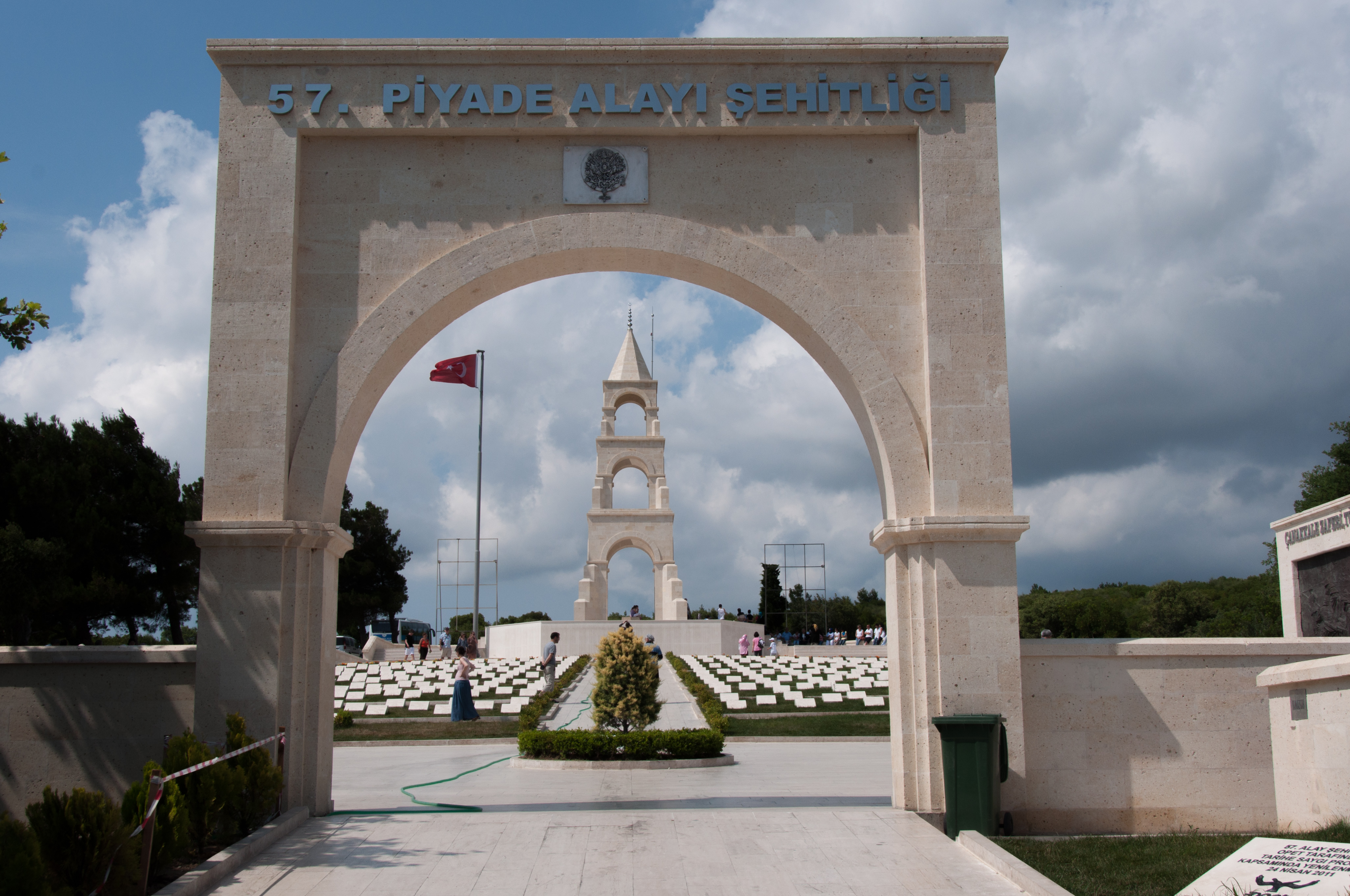 The Monument to the 57th Ottoman Infantry Regiment